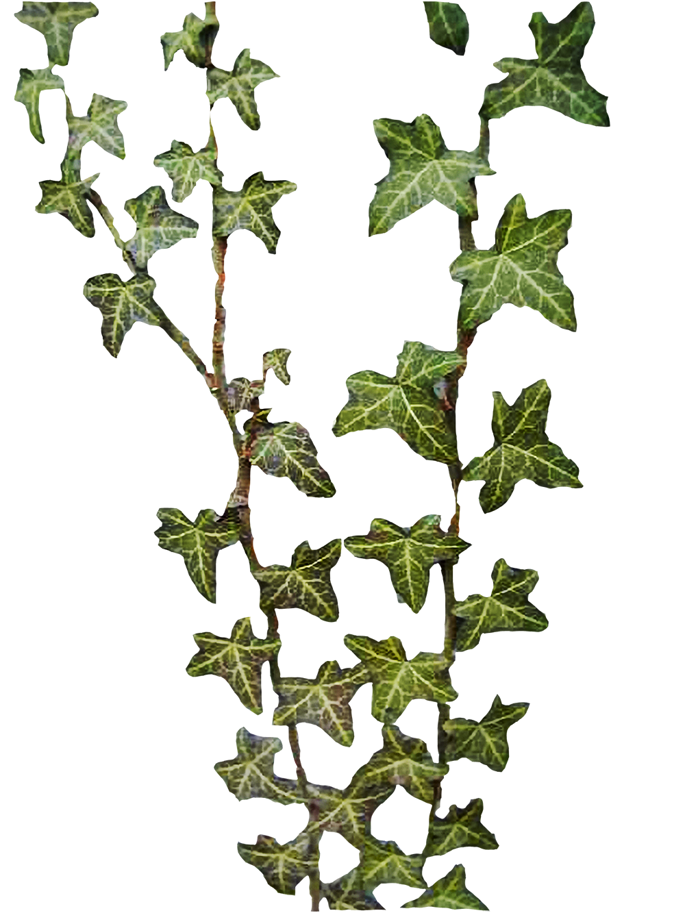 masked/transparent ivy.